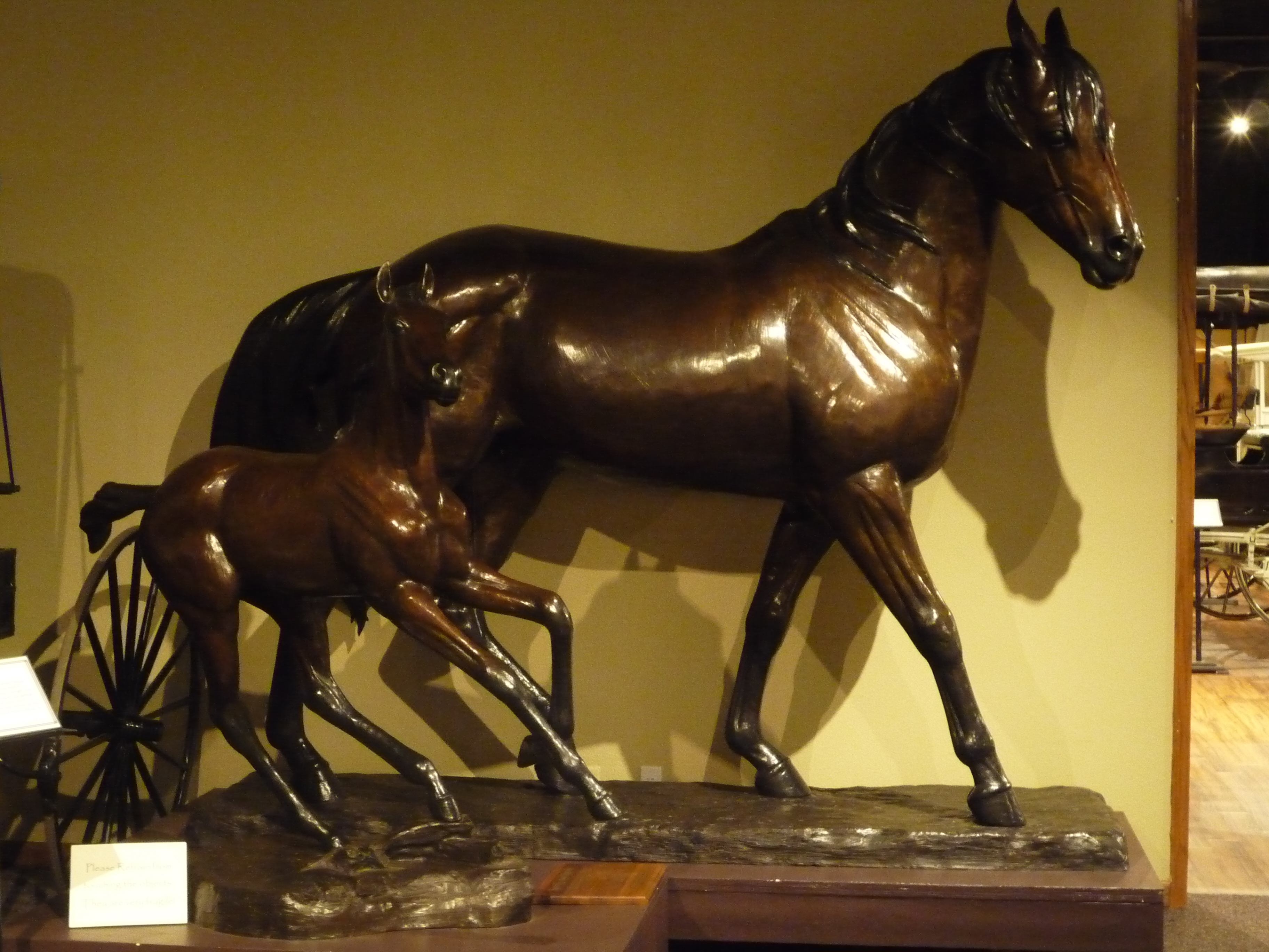 Veryl Goodnight Horses Sculpture Spring and Sprite Photo I took myself at the Cheyenne Frontier Days Old West Museum and Hall of Fame.